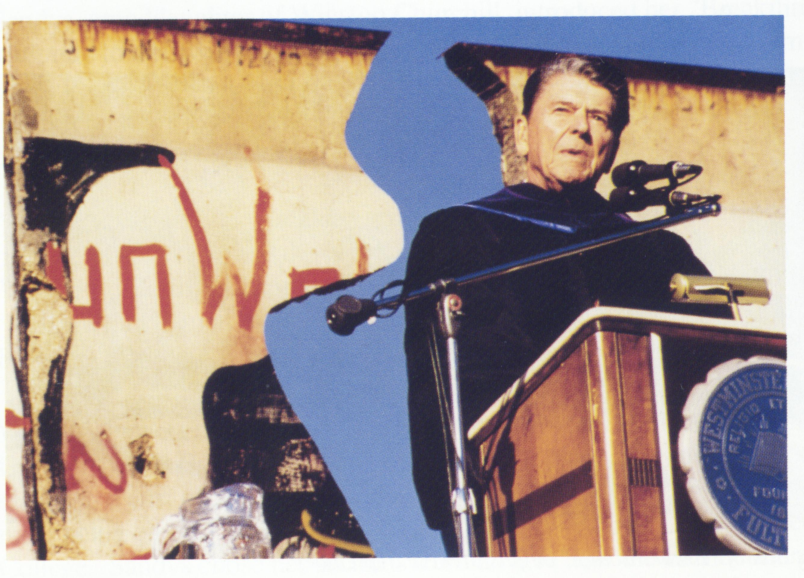 Ronald Reagan giving a lecture at Westminster College, Fulton MO